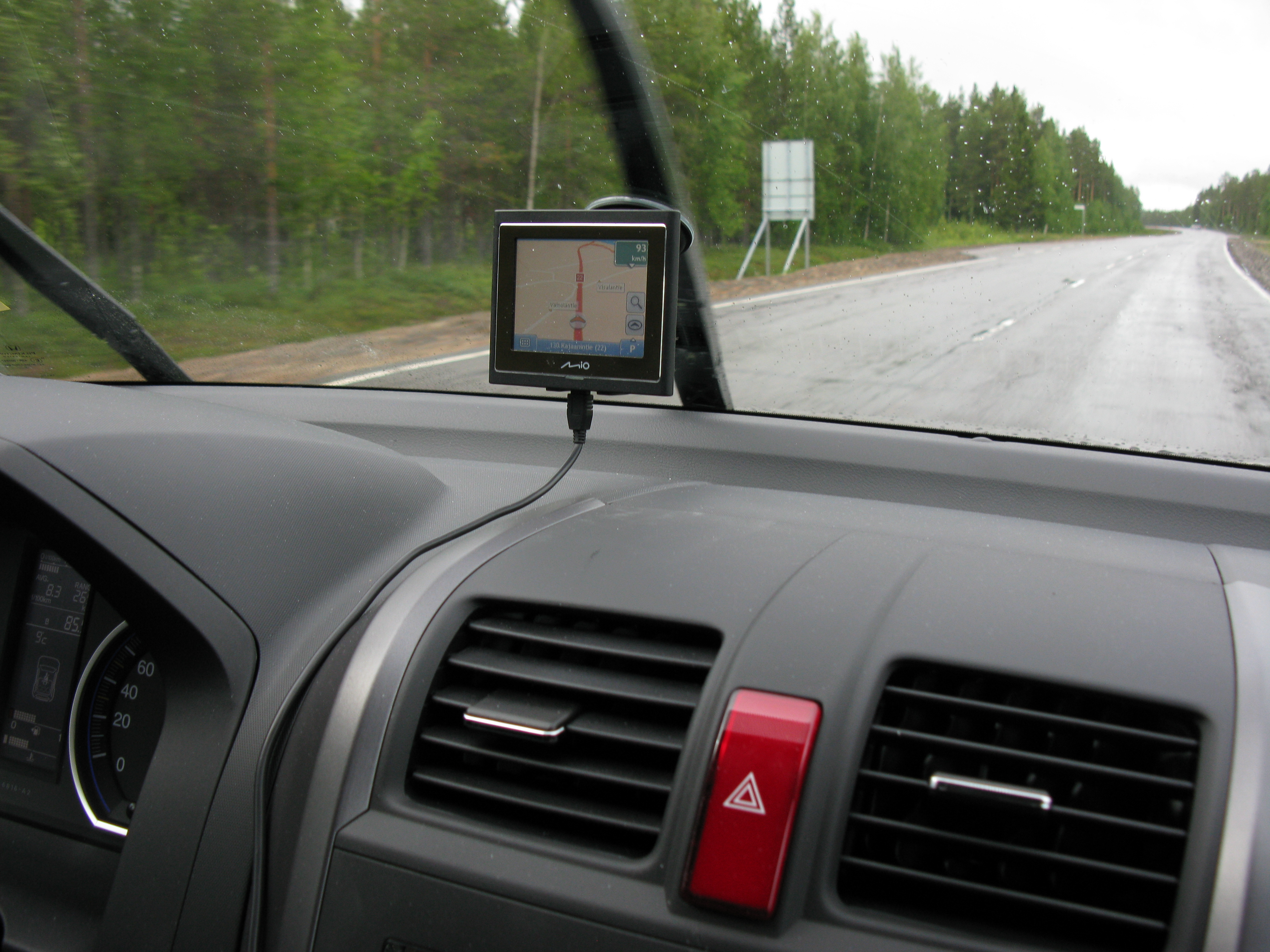 A typical off-the-shelf add-on car navigator in use on the highway 22 in Utajärvi, Finland